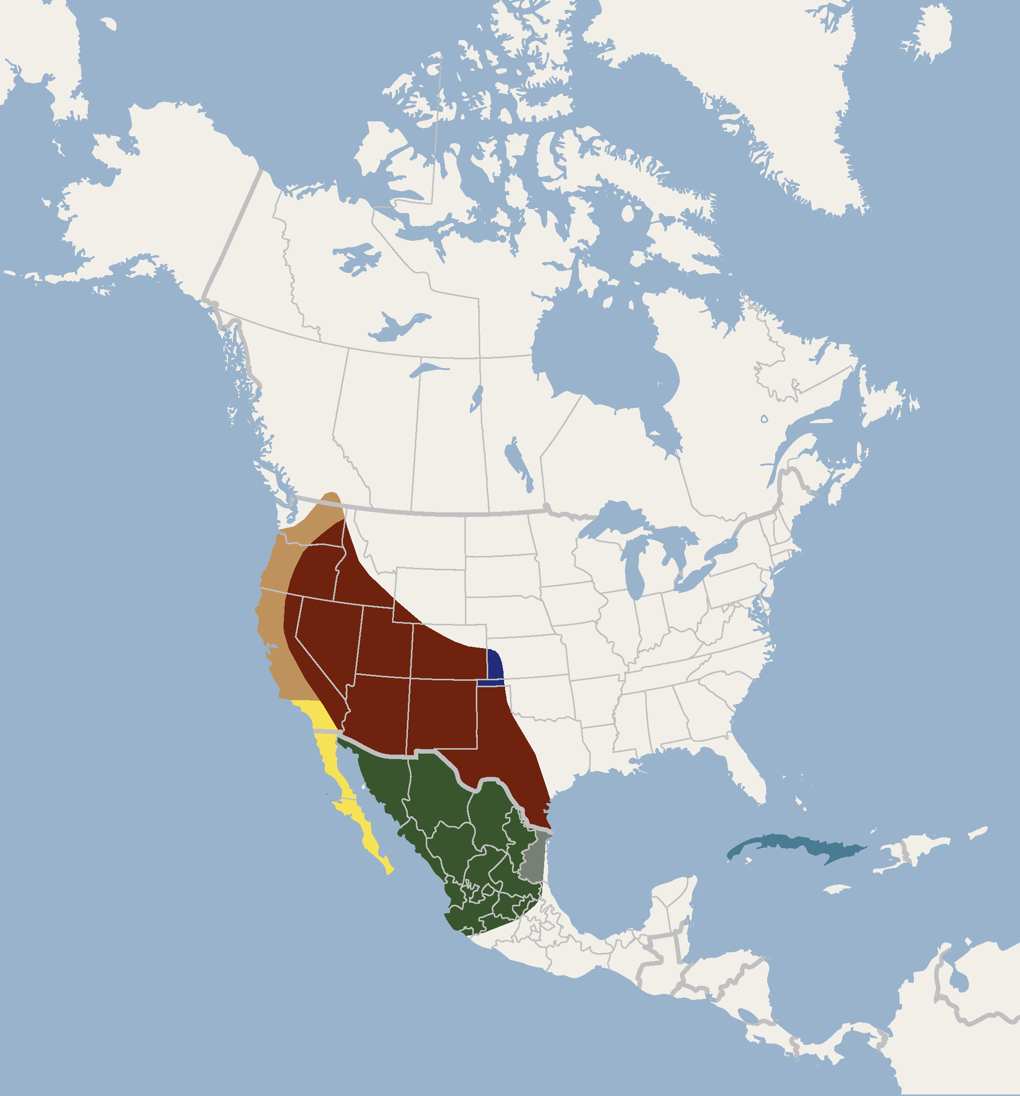 According to Martin & Schmidly, 1982. Subspecific range in differne colours